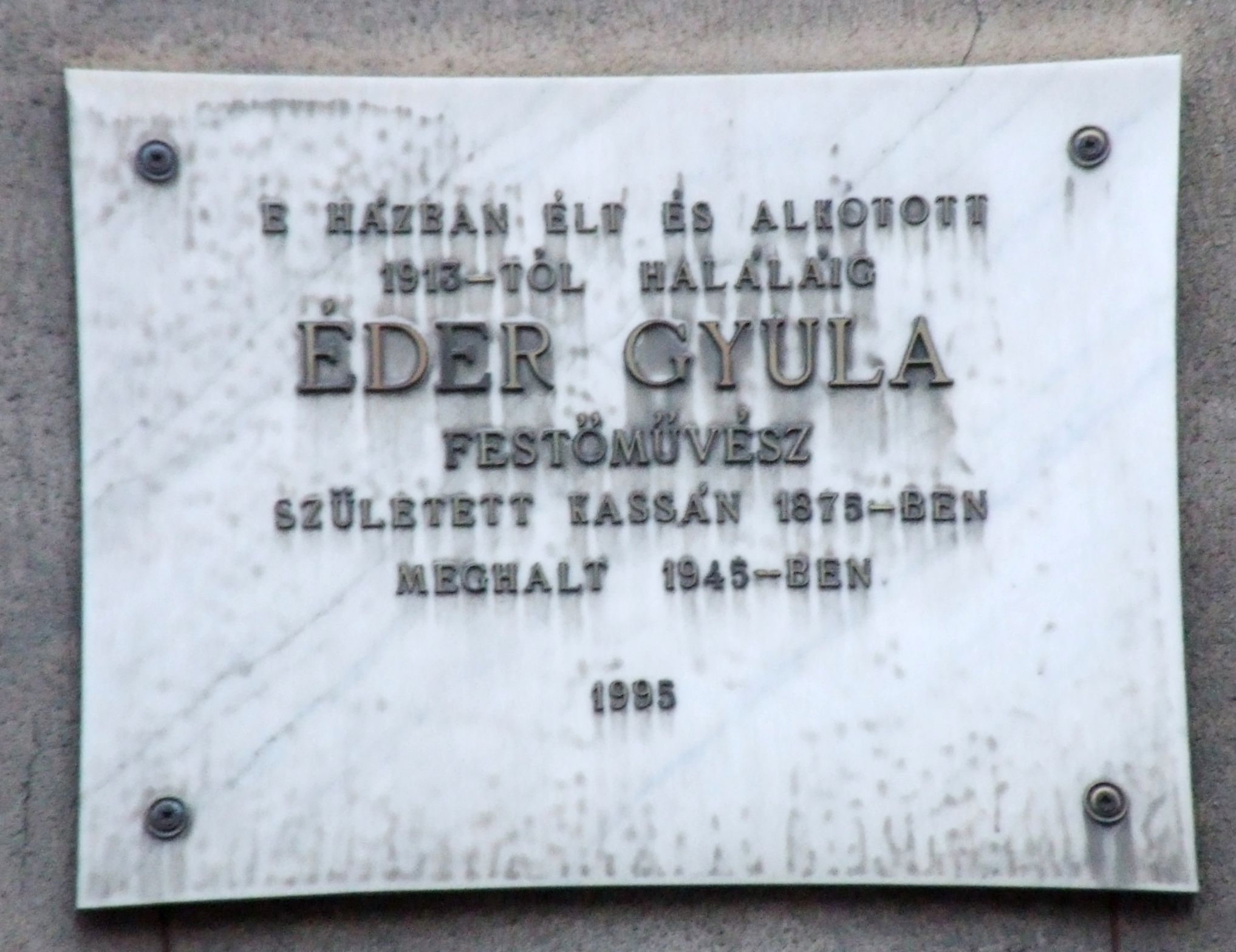 Gyula Éder commemorative plaque in Budapest District I, Szilágyi Dezső Square No 2